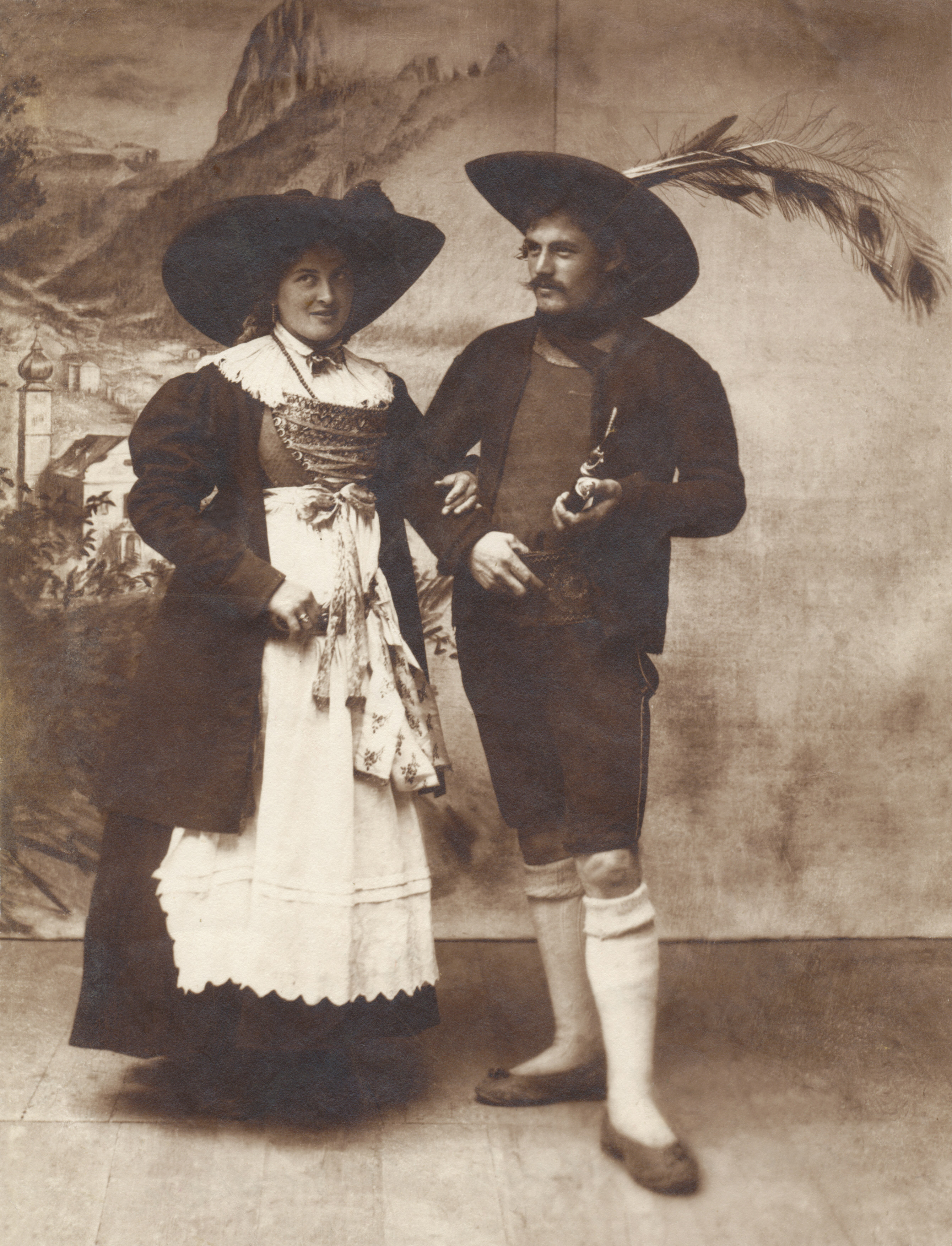 Maria Moroder Hilpold (1876 - 1914) daughter of Vinzenz Scurciá and Friedrich Moroder (1880 - 1937) sculptor son of Josef Moroder Lusenberg around 1896 in local costumes in Urtijëi.